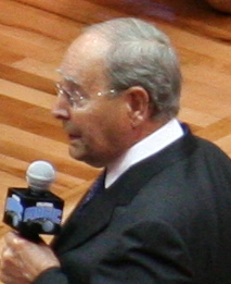 Magic owner Rich DeVos welcoming fans and thanking the City of Orlando for their support of the franchise before the Magic's first regular season home game in the new arena.